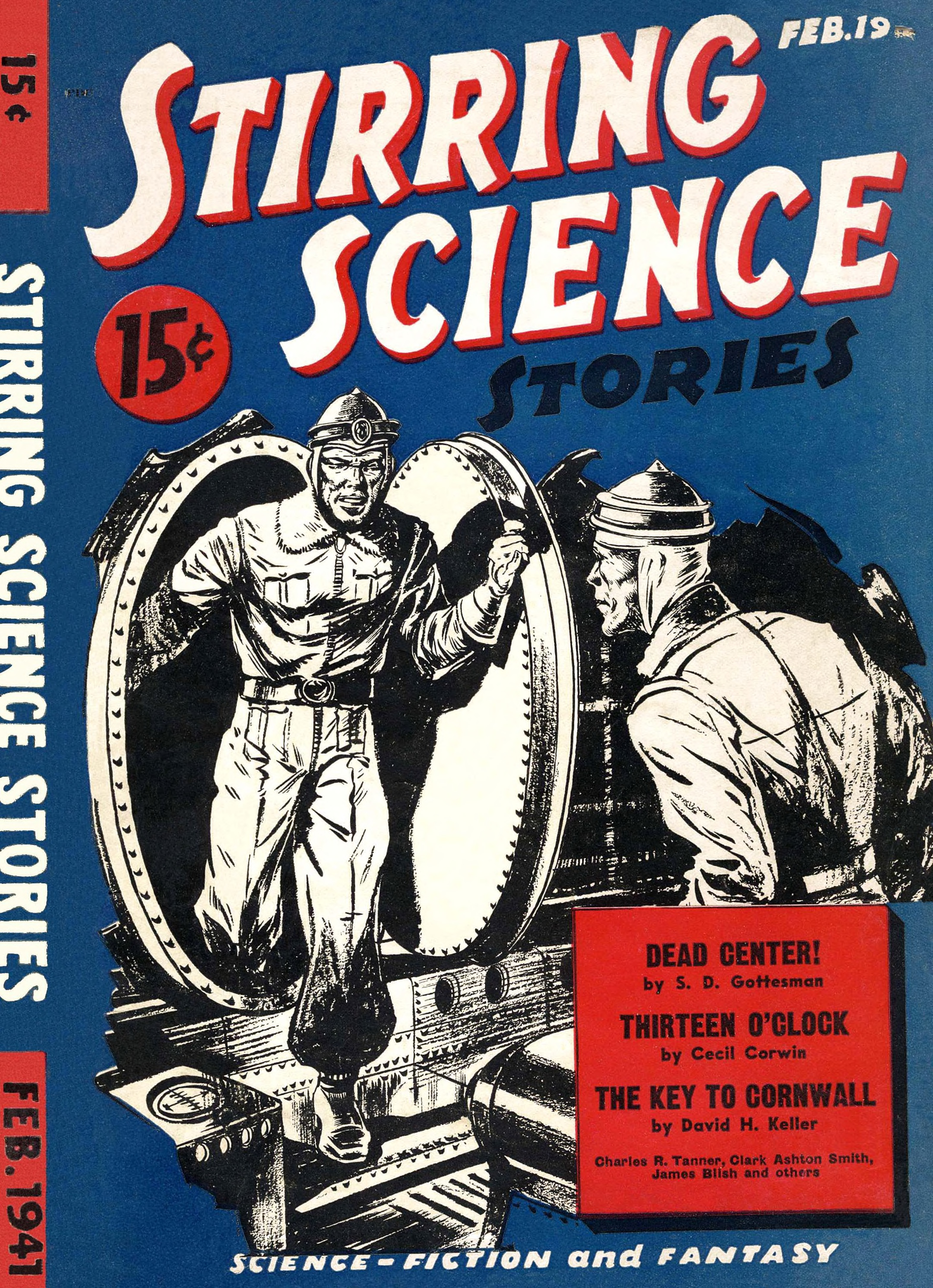 Cover of the February 1941 issue of Stirring Science Stories